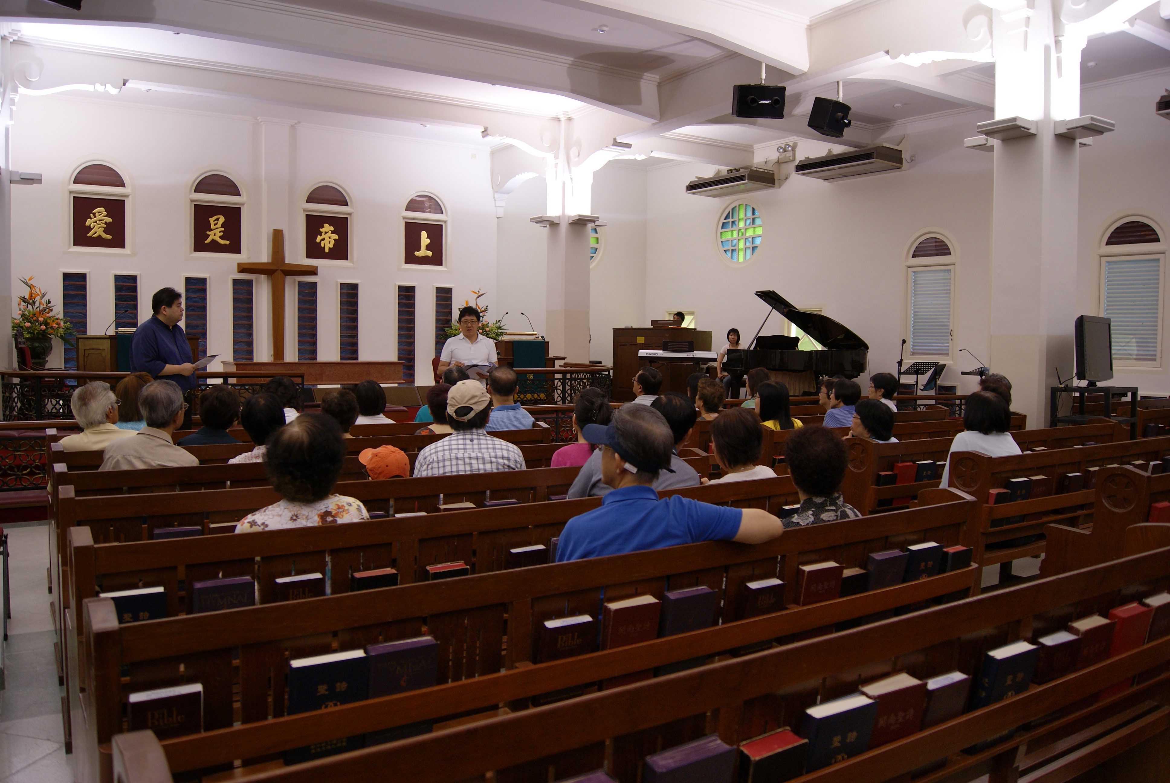 The sanctuary of Telok Ayer Chinese Methodist Church, Singapore.